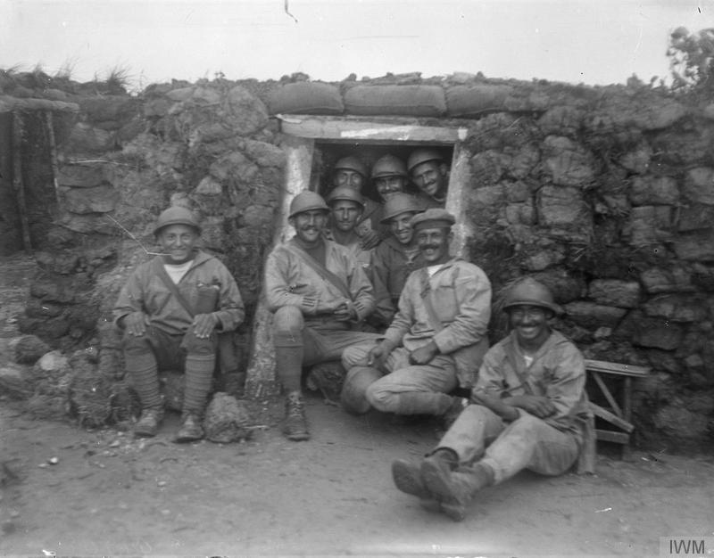 The Battle of the Piave River, June 1918 Group of Italian Marines at the entrance to their dug out, Piave Front.